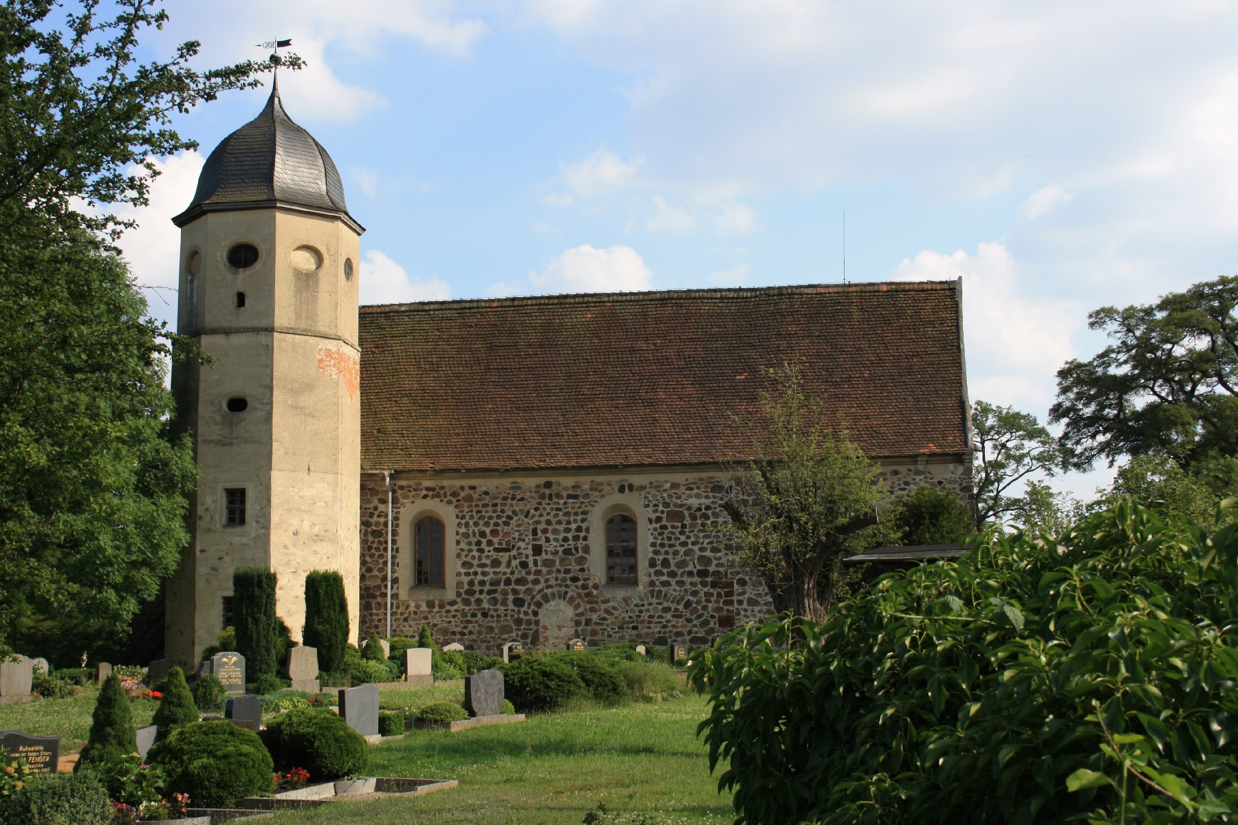 Church in Meuro near Lutherstadt Wittenberg in Saxony-Anhalt, Germany.